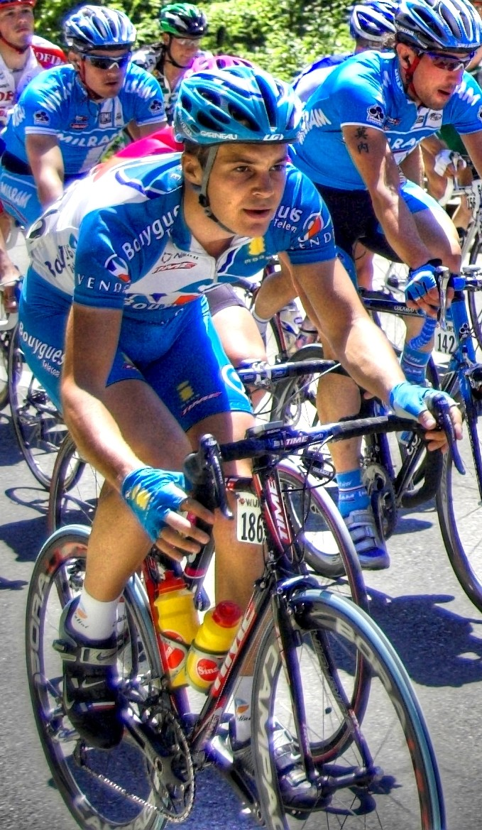 Christophe Kern on the 2nd stage of the bicycle race "tour de suisse 2006" - near Mutschellen. 'tour de suisse 5' On White